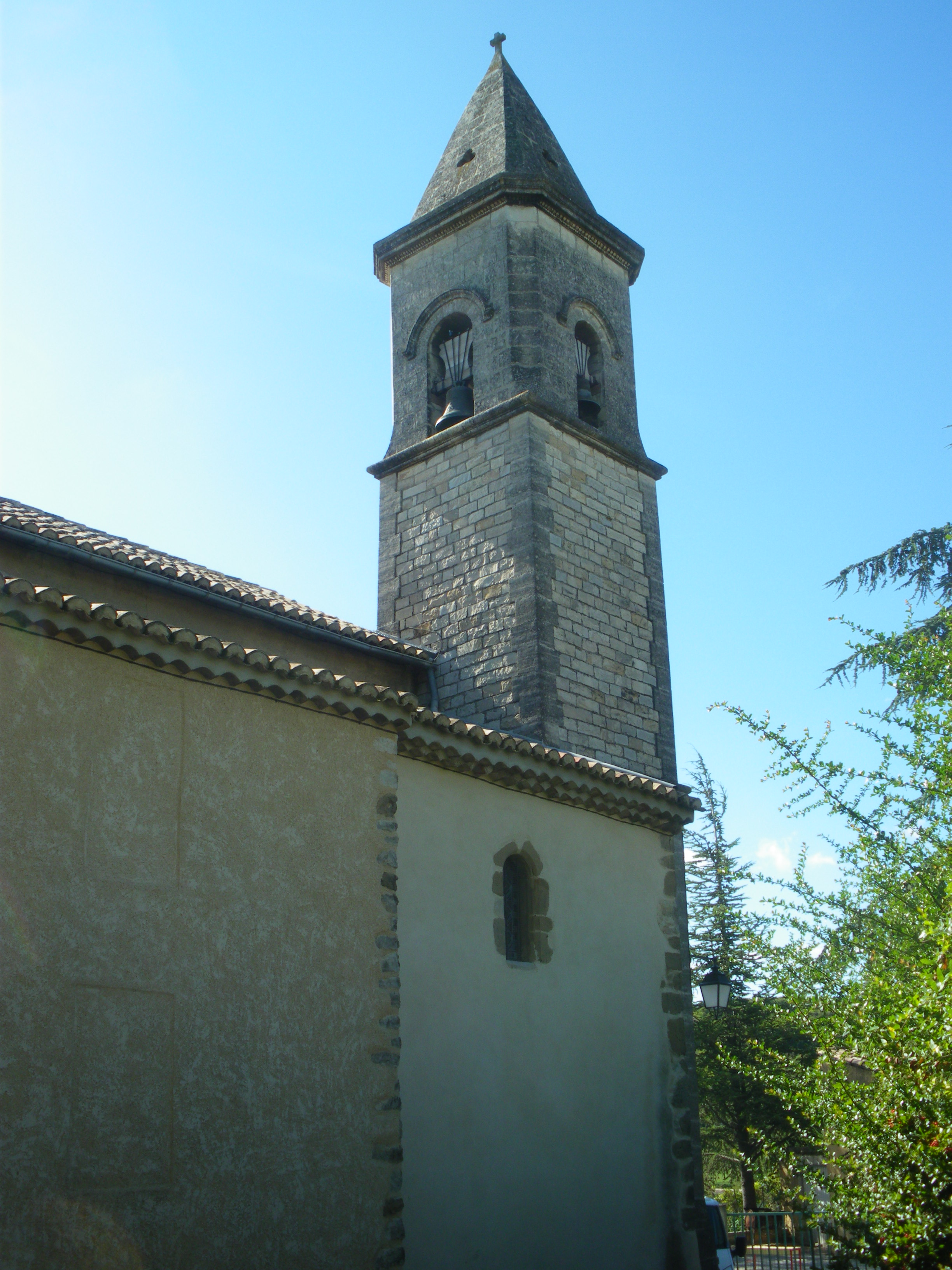 Roaix church, Vaucluse, France